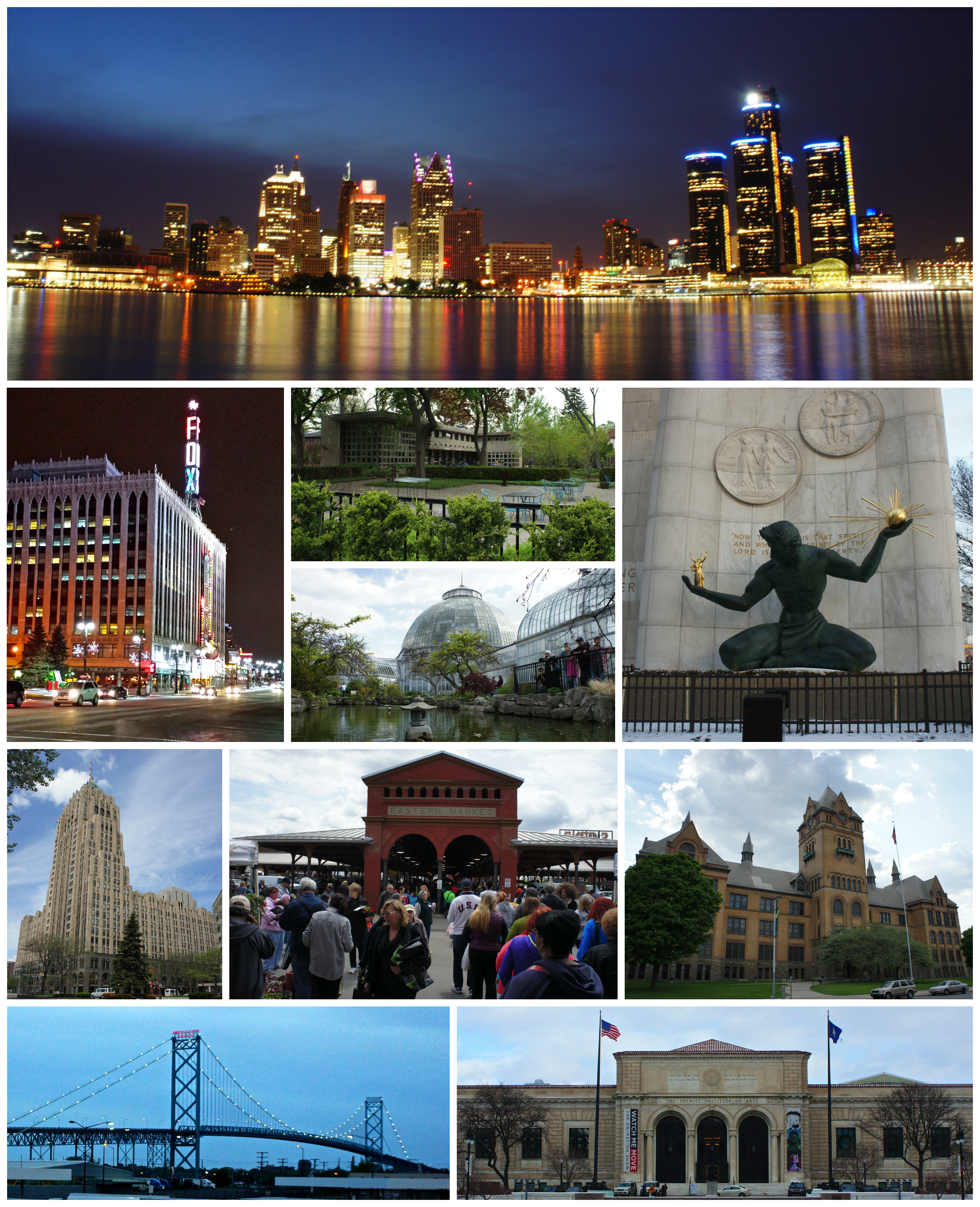 A montage of images of landmarks in Detroit. From top left: Downtown Detroit skyline, seen from Windsor, Fox Theatre, Dorothy H. Turkel House in Palmer Woods, Anna Scripps Whitcomb Conservatory at Belle Isle Park, Spirit of Detroit, Fisher Building, Eastern Market, Old Main at Wayne State University, Ambassador Bridge, and the Detroit Institute of Arts.